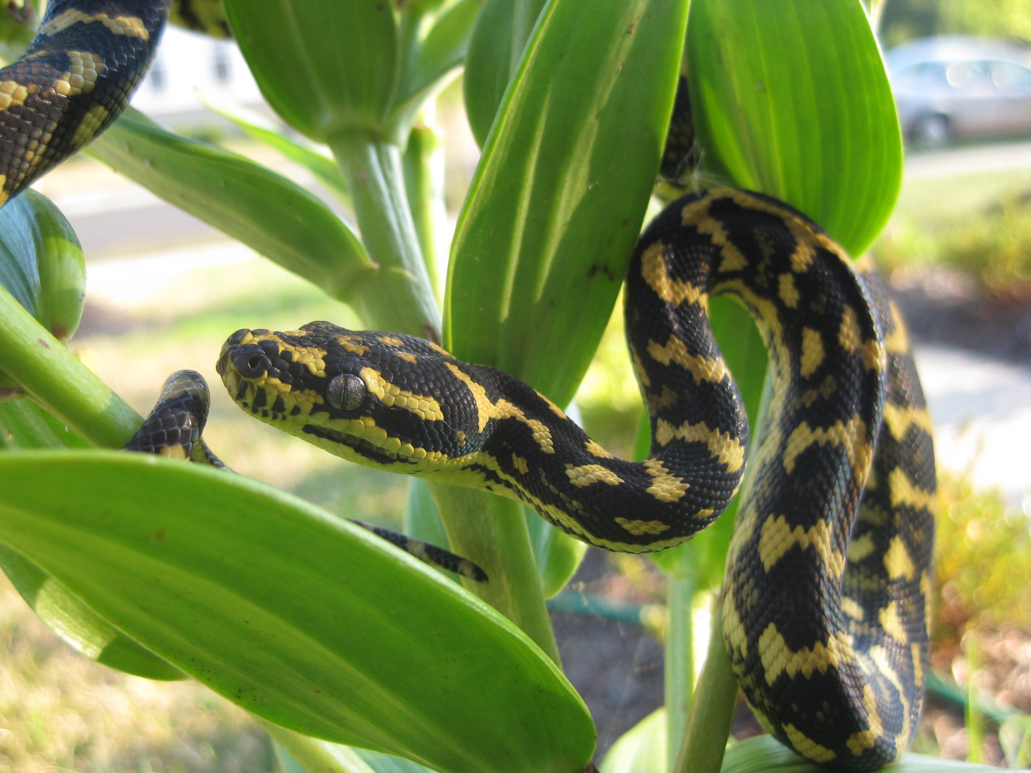 Jungle Carpet Python, Morelia spilota cheynei. Animal from my personal collection.